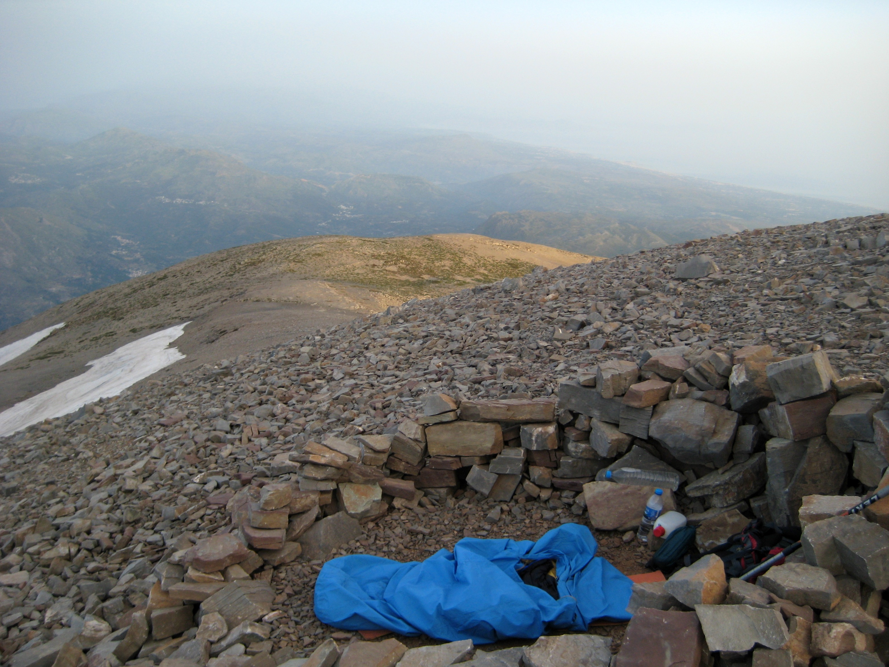 Bivouac site on summit of Psiloritis (Mount Ida), Crete. View looking north-westwards to Rethymnon. Solo overnight stop during 40km traverse of the mountain from Fourfouras to Rethymnon.